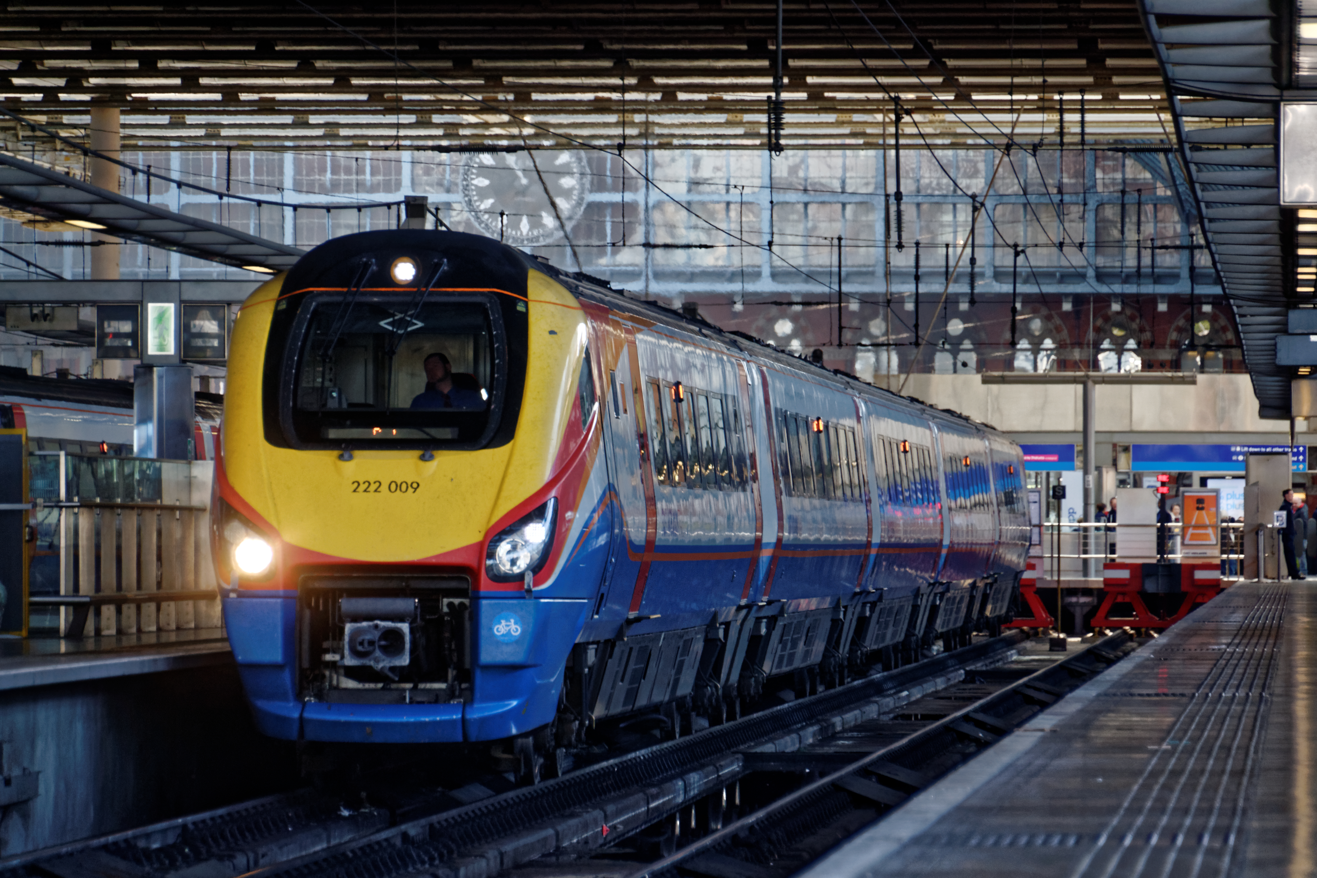 East Midlands Trains 222009 at London St Pancras working 1F25 1058 St Pancras International to Sheffield.